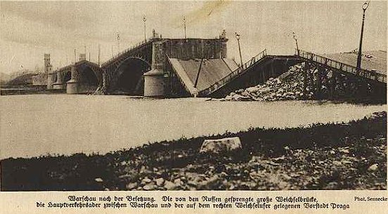 Poniatowski bridge destroyed by Russian army during their retreat from Warsaw in 1915.